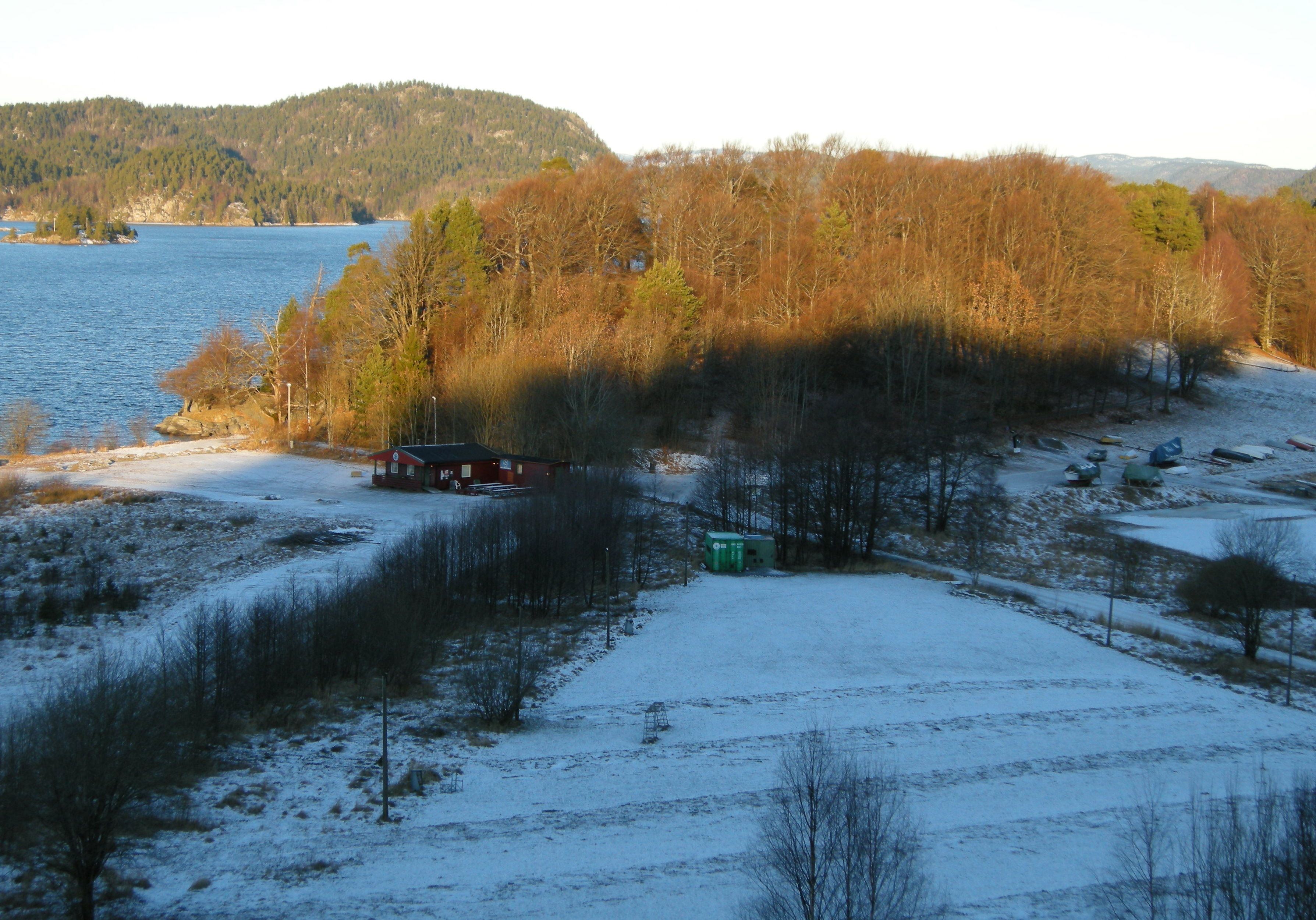 Fresje gård, Larvik, Norway